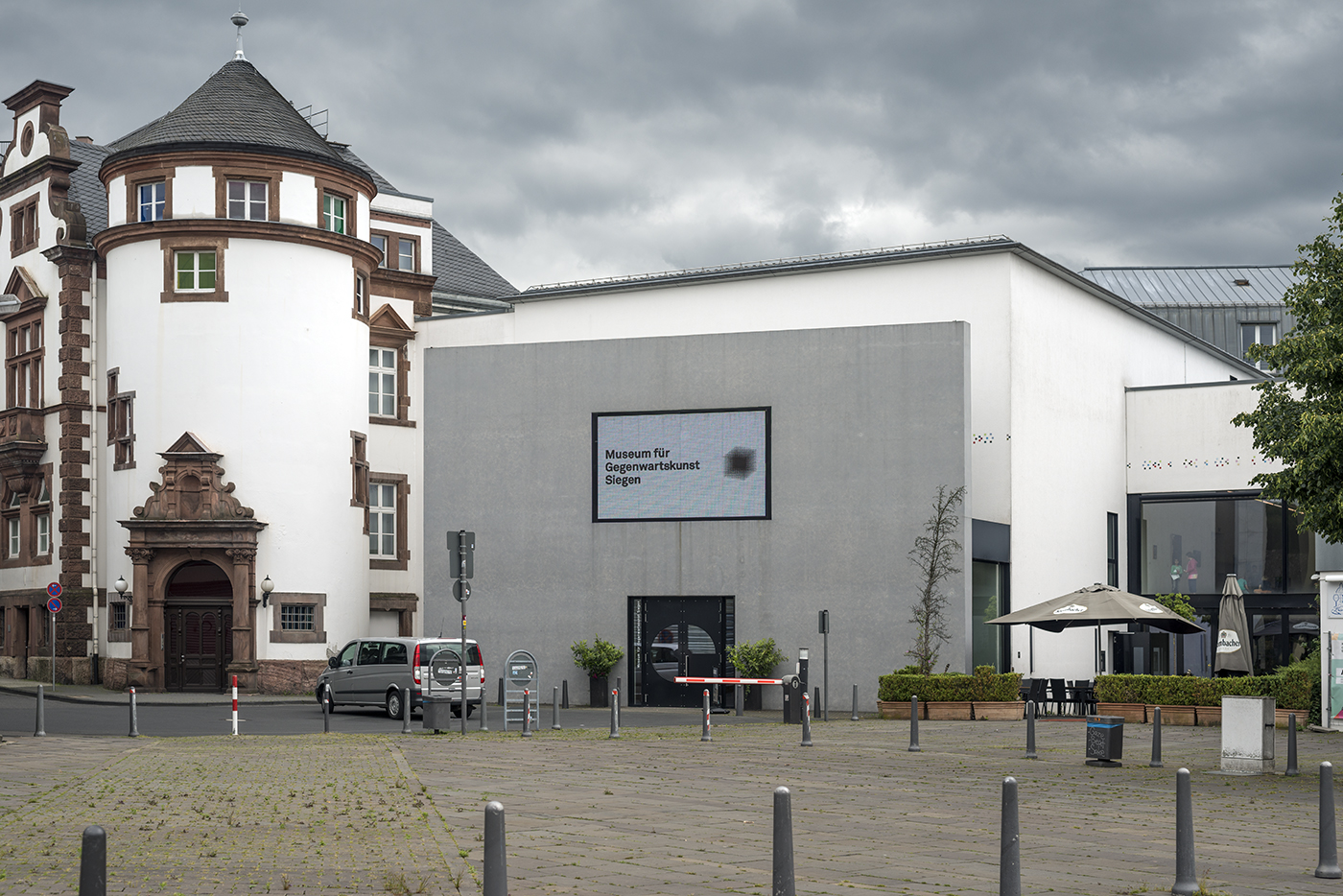 Museum für Gegenwartskunst, Siegen, Germany (Museum of Contemporary Art)